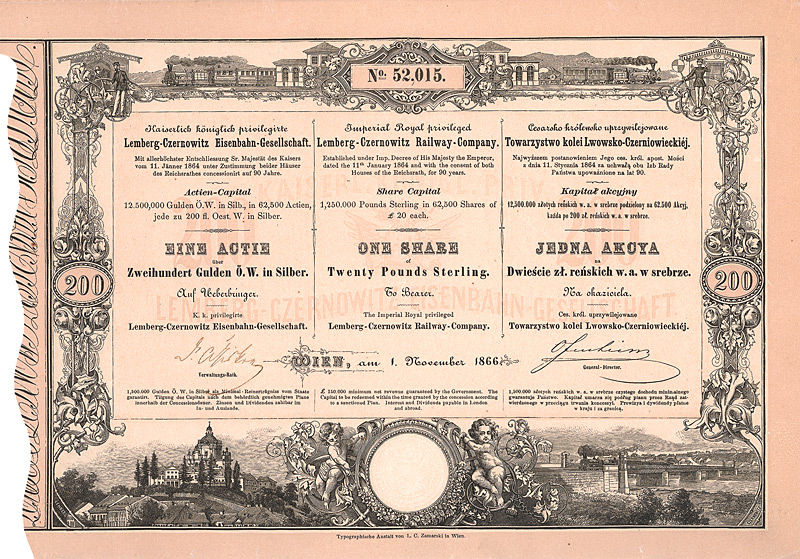 Share of the Lemberg-Czernowitz-Jassy railway, issued 1 November 1866 in Vienna